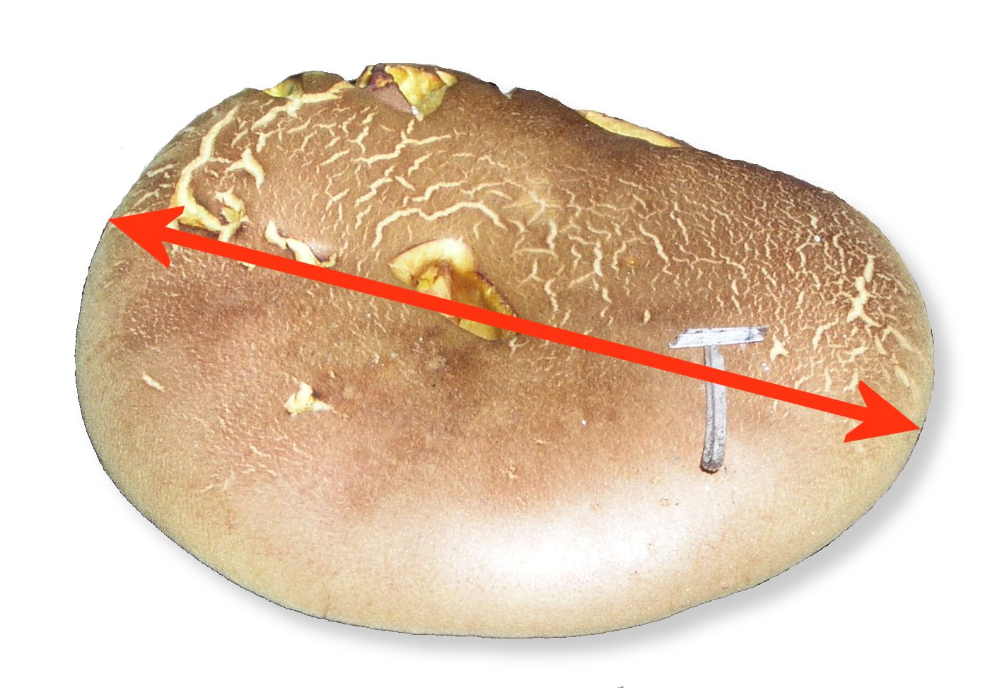 fungus cap width